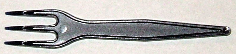 Currywurst fork made of plastic having three tips